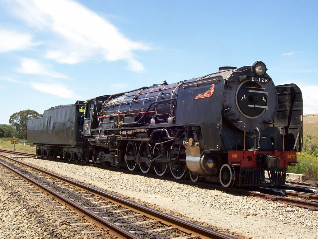 Class 25NC-3472 "Elize" operated by Reefsteamers at Magaliesburg Station.